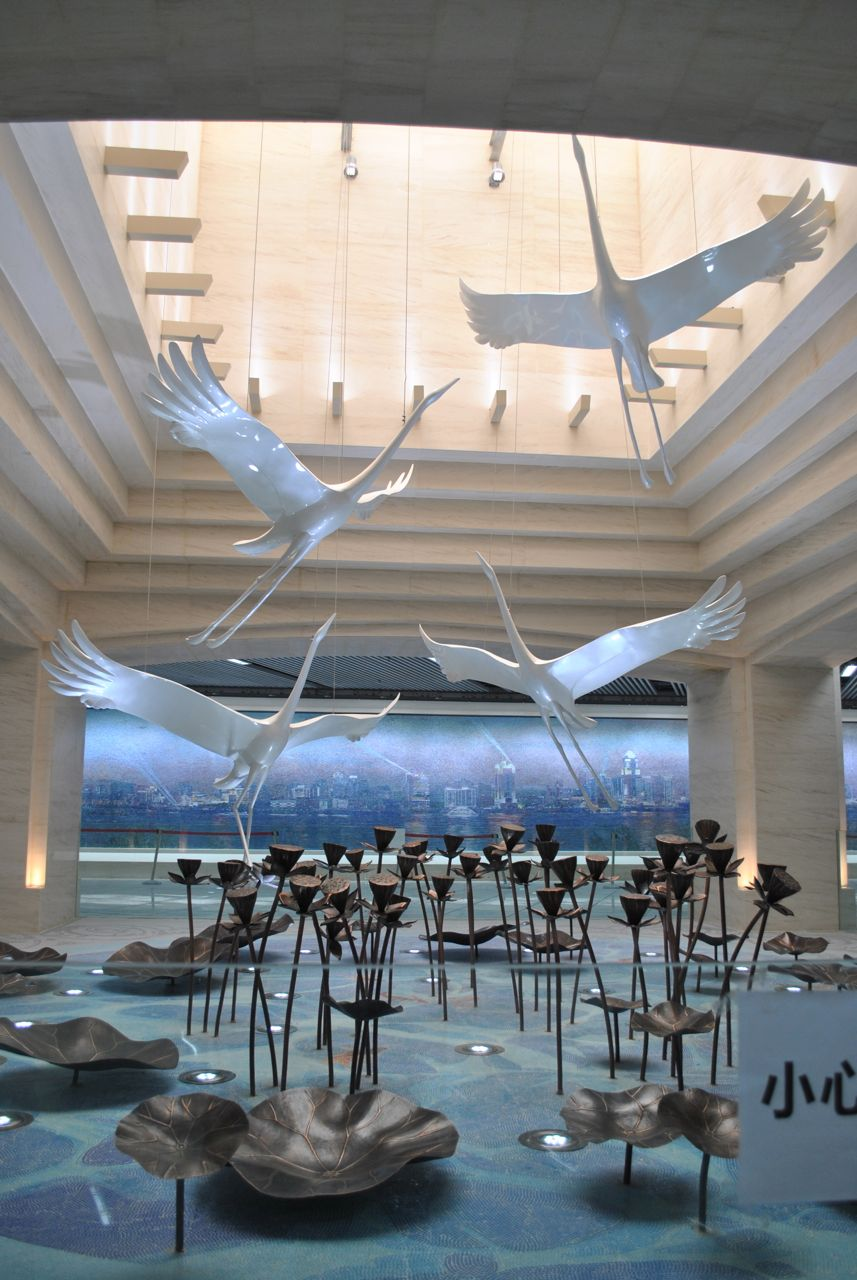 Hankou Railway Station (Subway)